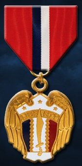 The obverse of the Philippine Liberation Medal